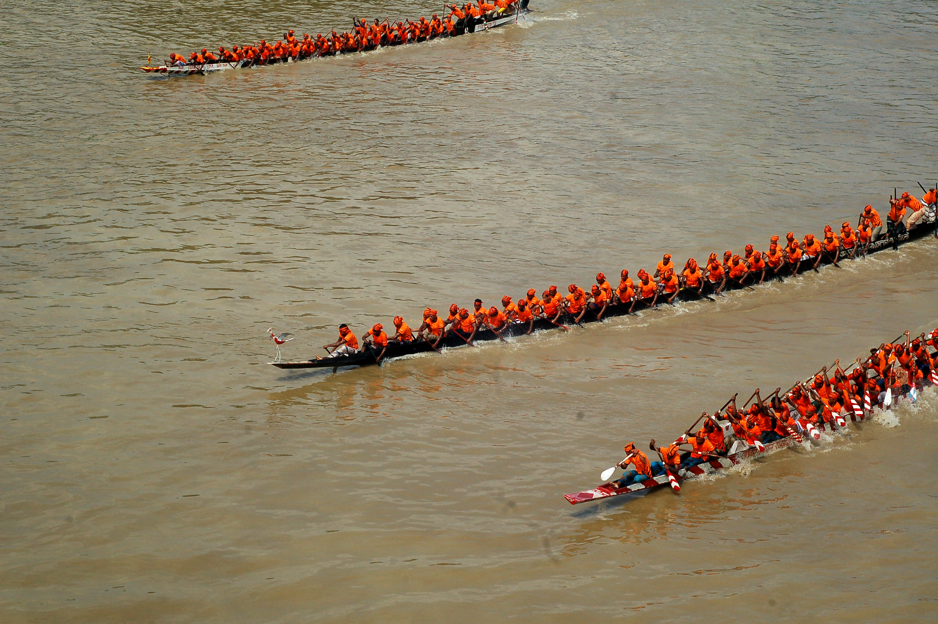 Nouka Baich (Boat Race) is one of most traditioonal form of entertain from people of Bangladesh. Its history is very rich and very unique in nature comparing with the other form of boat race anywhere in the world. Apart from the only restriction about no engine boat to be allowed, there are no rule about how long the boat can be or how many people will it carry. The most unique feature about Nouka Baich is in every boat there is a leader who does not row rather acts as an energizer for the whole team by singing songs and rhymes. Normally this race is held in big river channels and neighbouring villages participate for the pride of their villages.